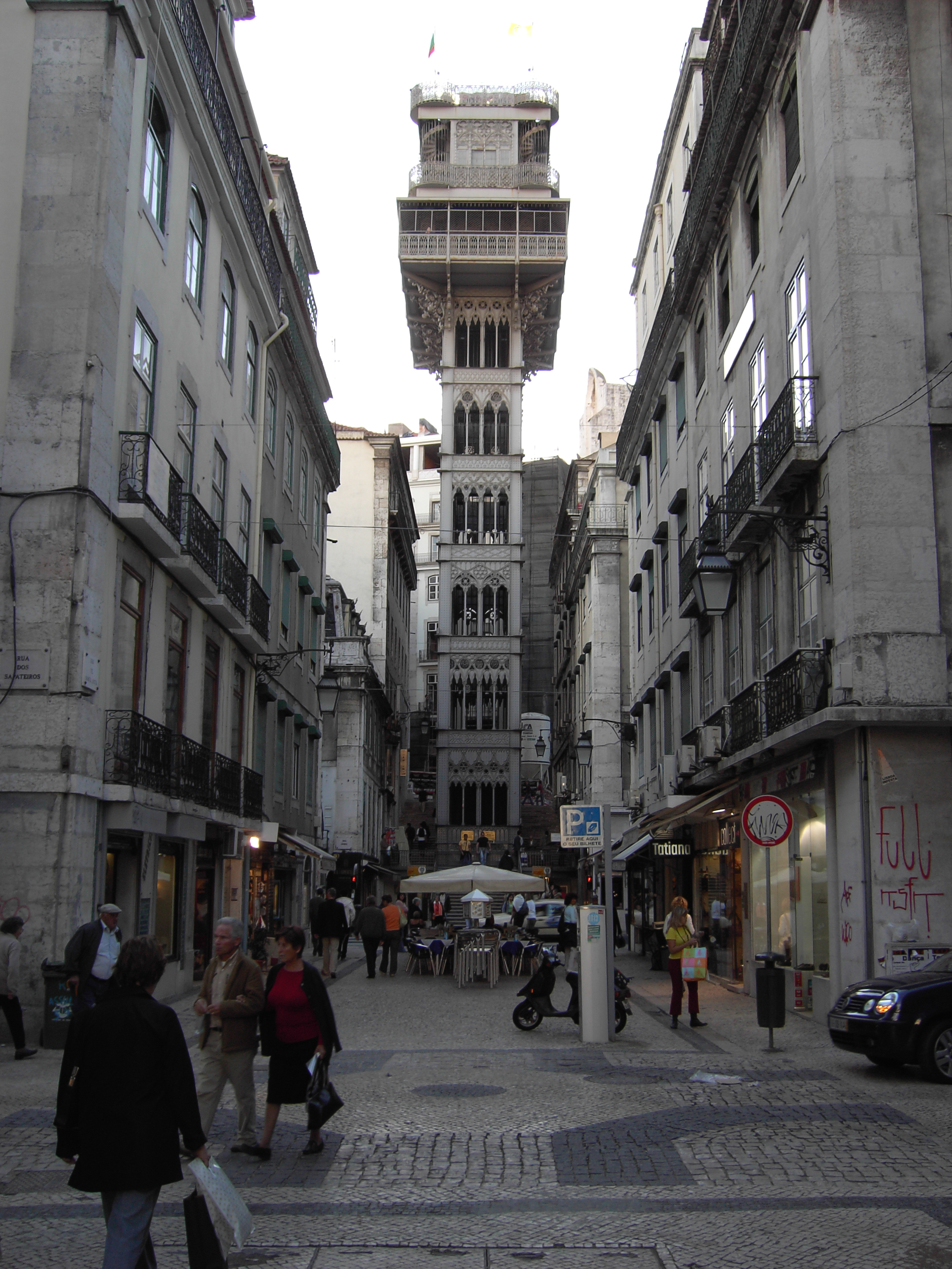 Original photograph taken by Nol Aders on 17th October 2005, 18:00